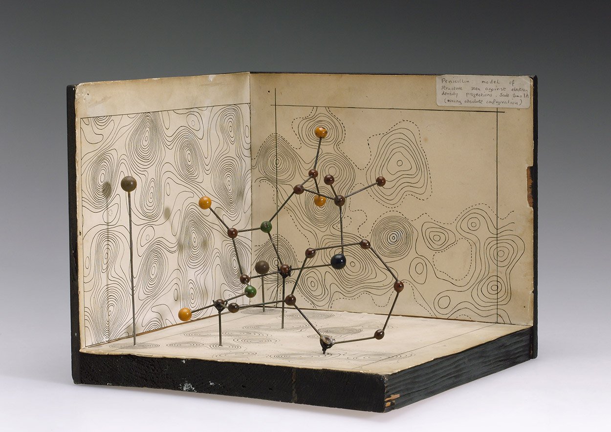 Molecular model of Penicillin by Dorothy Hodgkin, c.1945. Front three quarter. Graduated grey background.